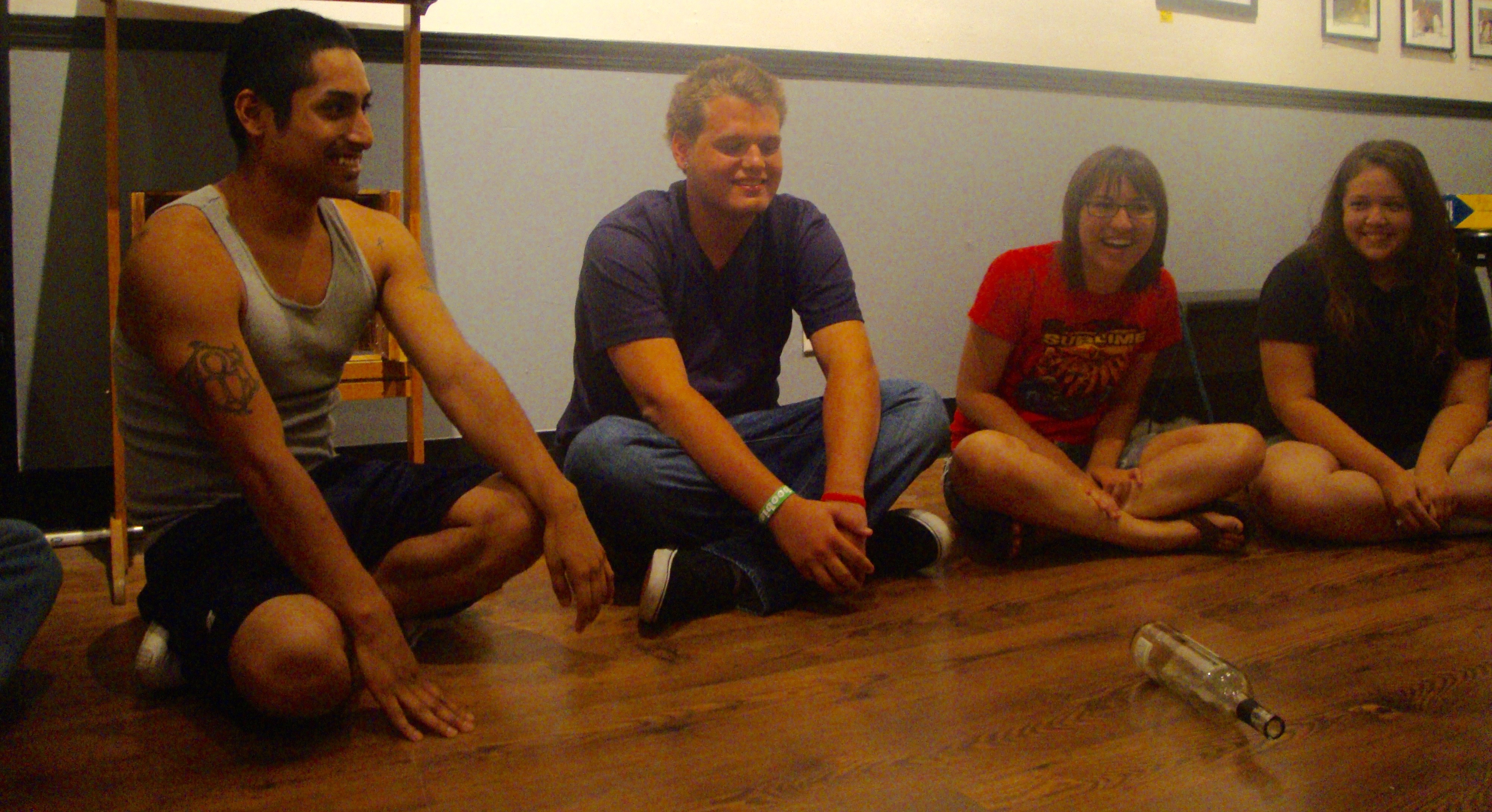 May the Sprinning Begin